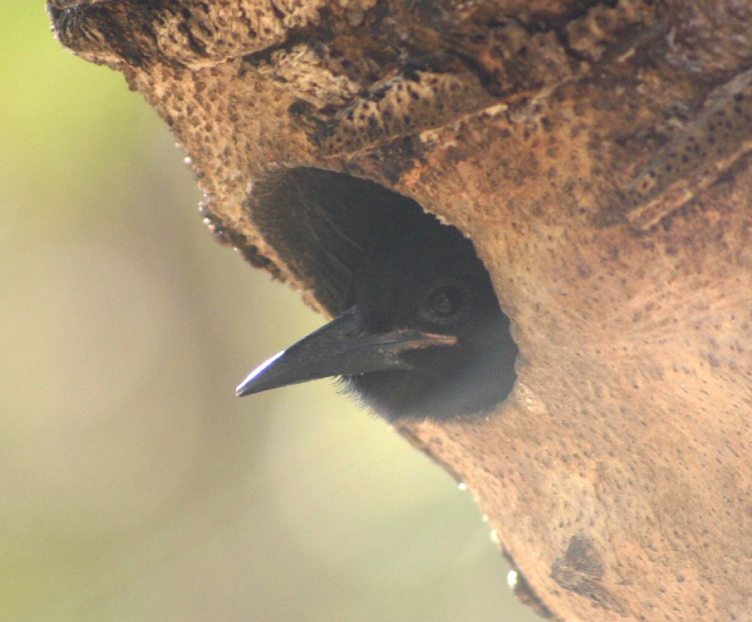 Immature Red-billed Woodhoopoe chick with black bill in Johannesburg garden